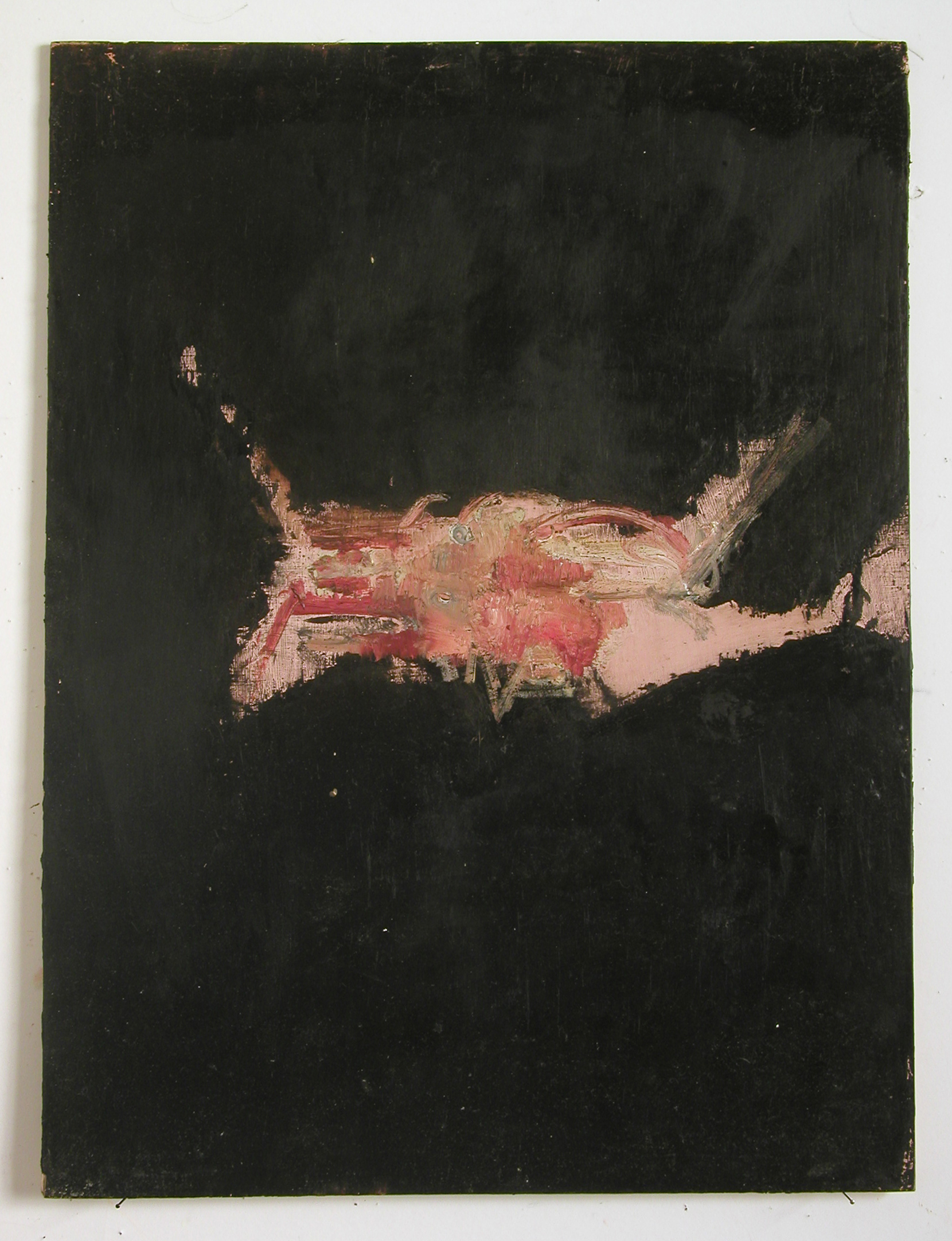 With permission by Mark Lammert.